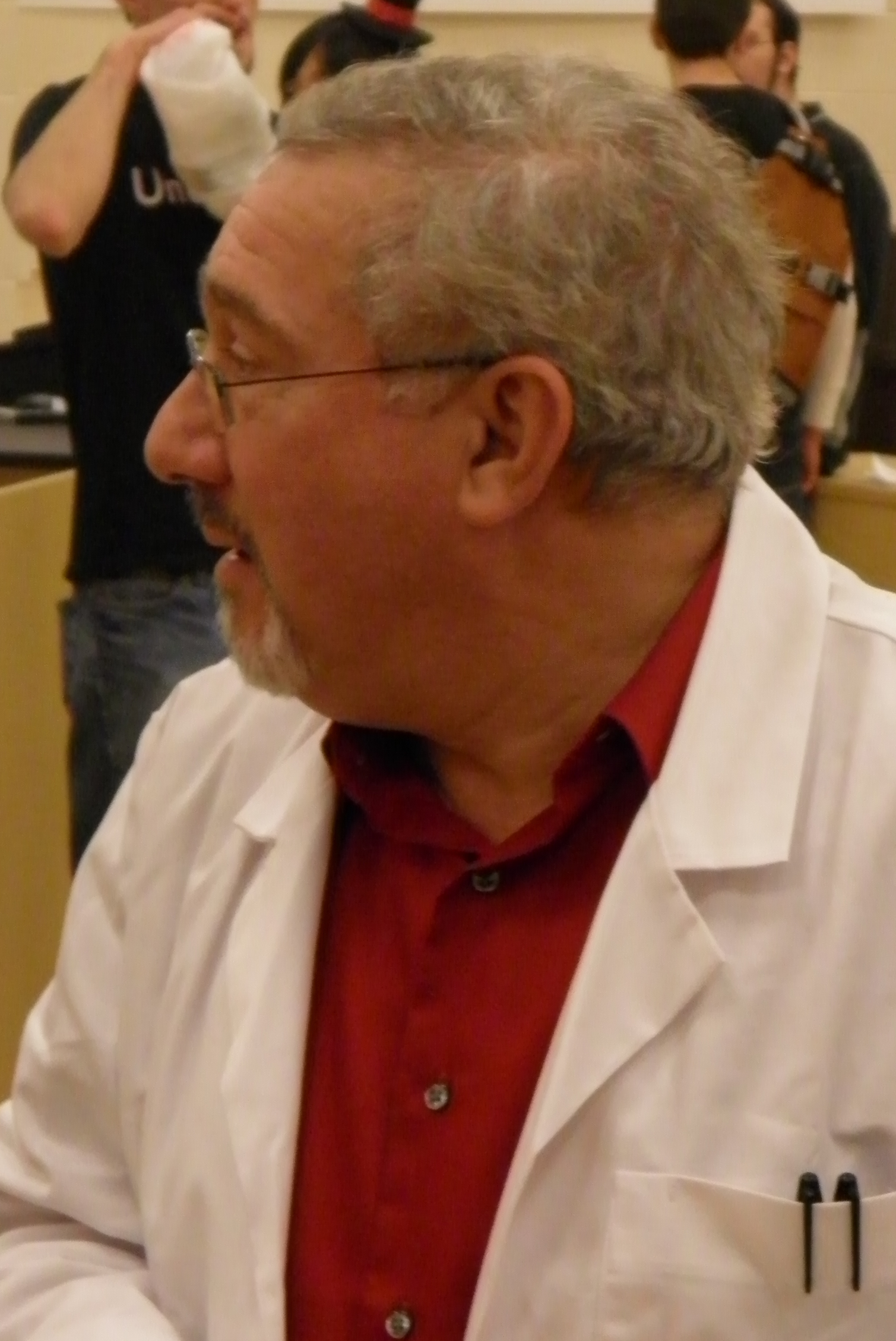 Person in costume/character at KotoriCon 2012.